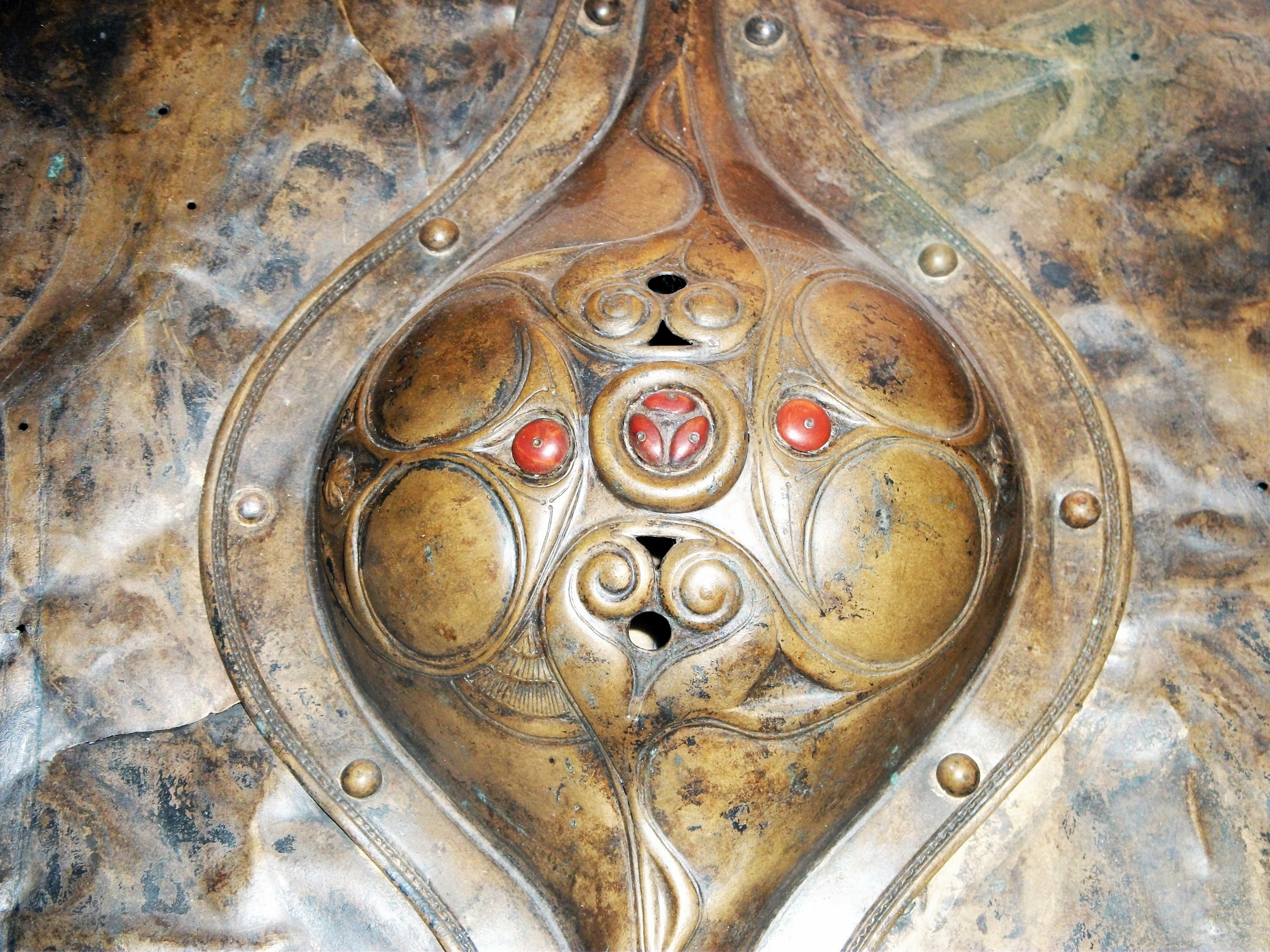 Centre of the Witham Shield